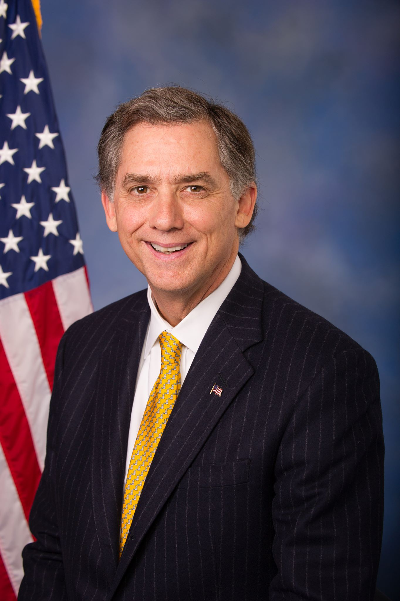 French Hill official photo, 114th Congress